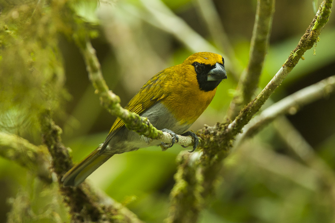 Black-faced Grosbeak - Panama_H8O0281